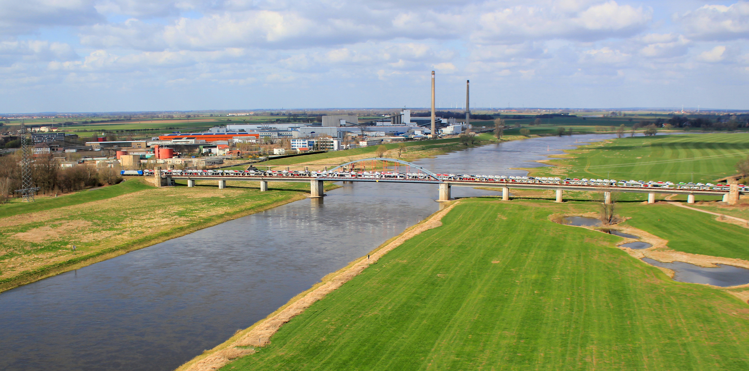 KAP (Kite Aerial Photography)